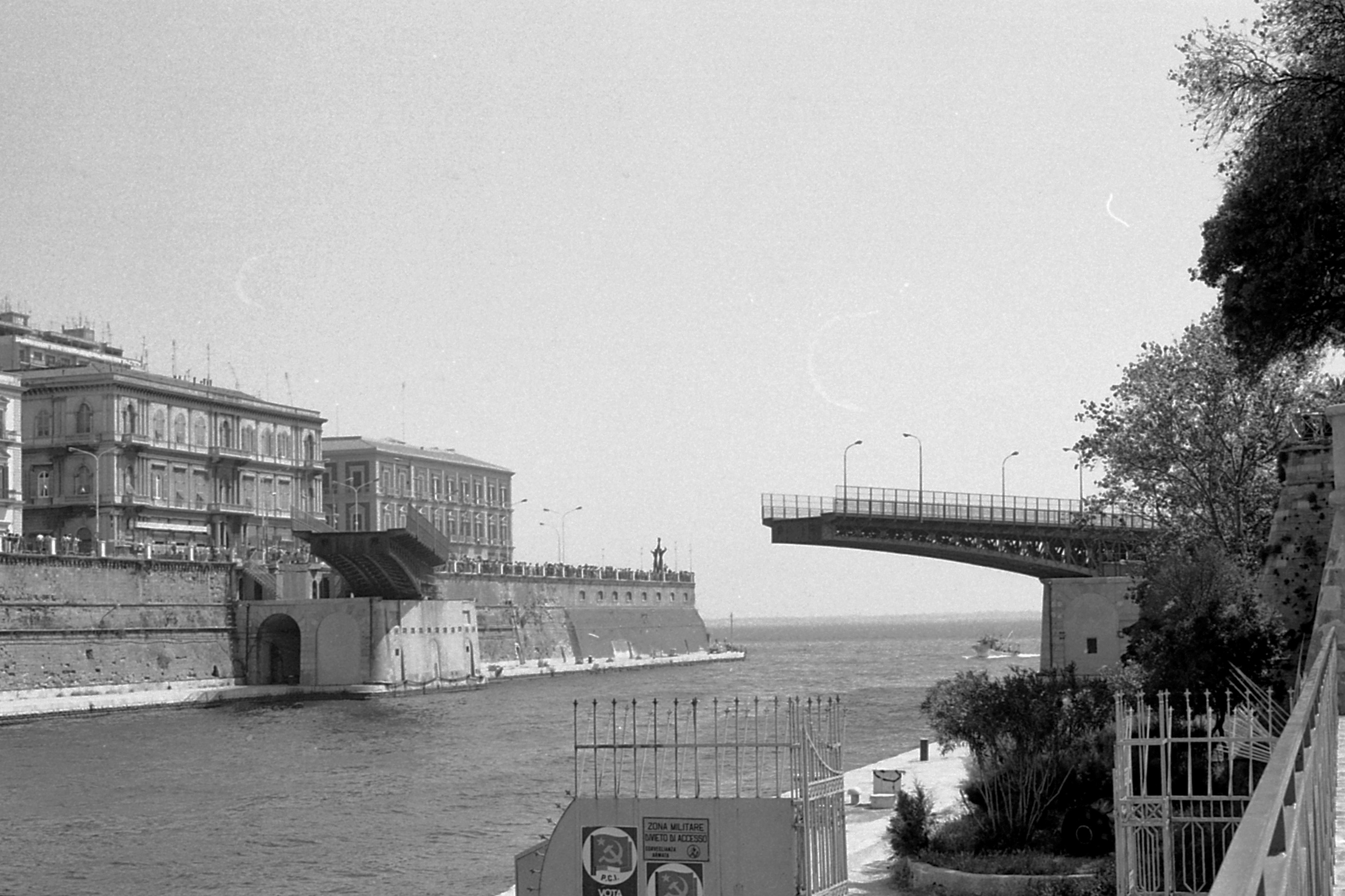 The Ponte Girevole (or Ponte di San Francesco di Paola), in Taranto, Italy, swinging open to permit a ship to pass.